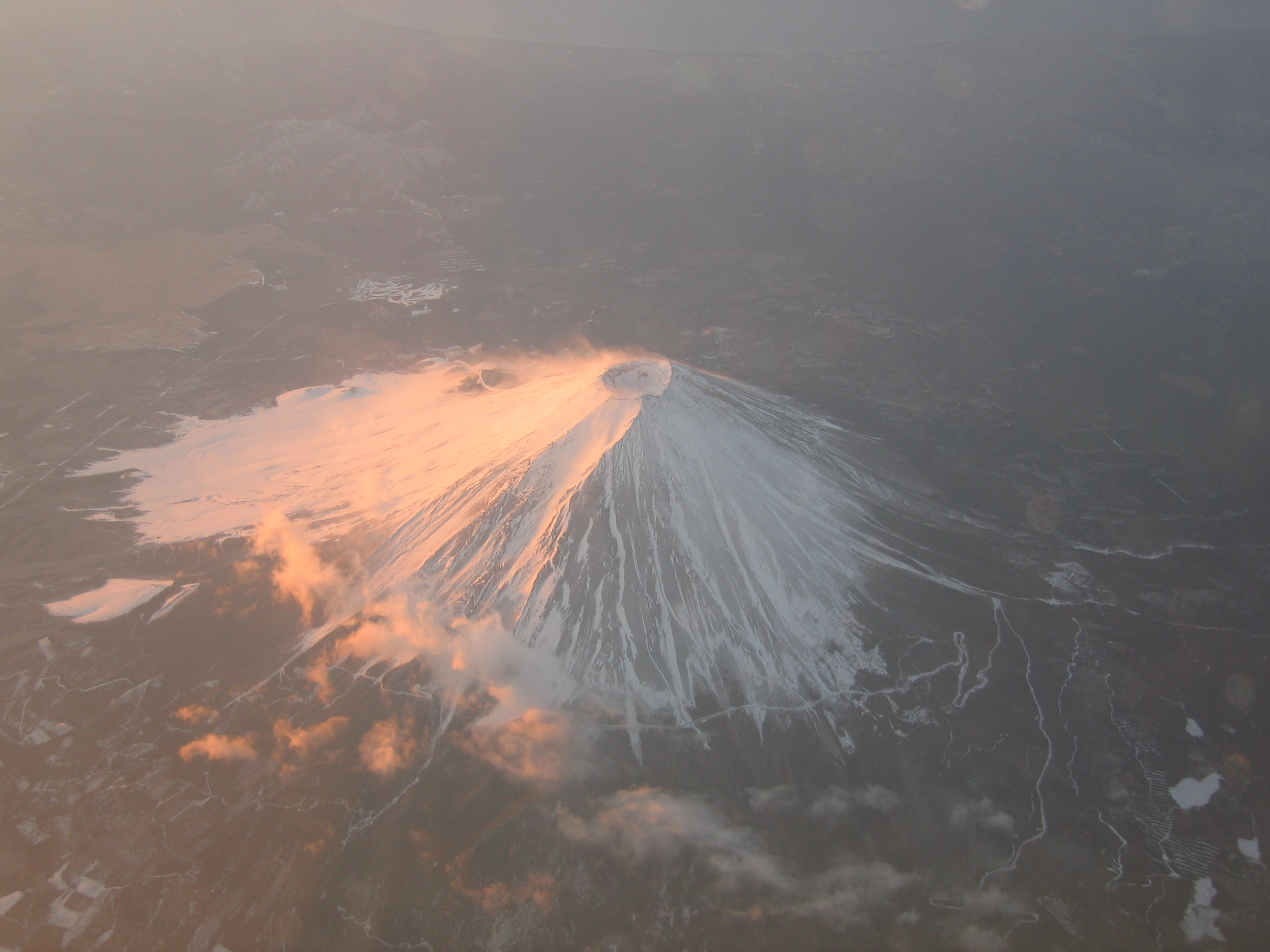 日の出前後に航空機から撮影した富士山 Mt. Fuji, viewed from an aircraft around the sunrise time.